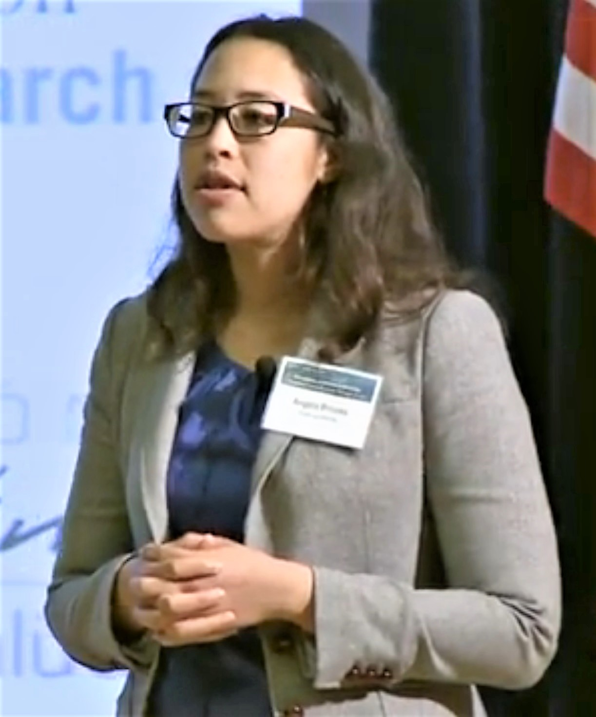 High-Throughput Somatic Variant Impact Phenotyping Using Gene Expression Signatures - Angela Brooks National Human Genome Research Institute May 11, 2015 - The Cancer Genome Atlas 4th Annual Scientific Symposium More